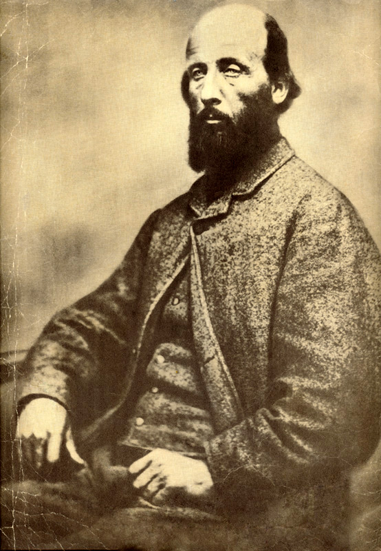 This is a portrait of Charles Fenerty (Canadian inventor, poet, explorer). The photo was taken in the 1870's (the exact date is unknown). The photo was taken for his family, about 10 years after his returned from Australia. He then settled in Sackville, Nova Scotia (though, the photo could have been taken in Halifax, NS).